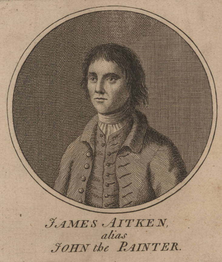 Frontispiece engraving of James Aitken, commonly called John Aitken and John the Painter, 1777. JCB Archive of Early American Images, The John Carter Brown Library at Brown University. Note: An impassioned supporter of the American Revolution, James Aitken, also known by other names, wished to attack the British Navy by burning down royal navy yards in Portsmouth and Bristol. He was eventually captured and executed for his terrorist activities. Accession number: 9432 Record number: 9432-1 JCB call number: D777 A311t